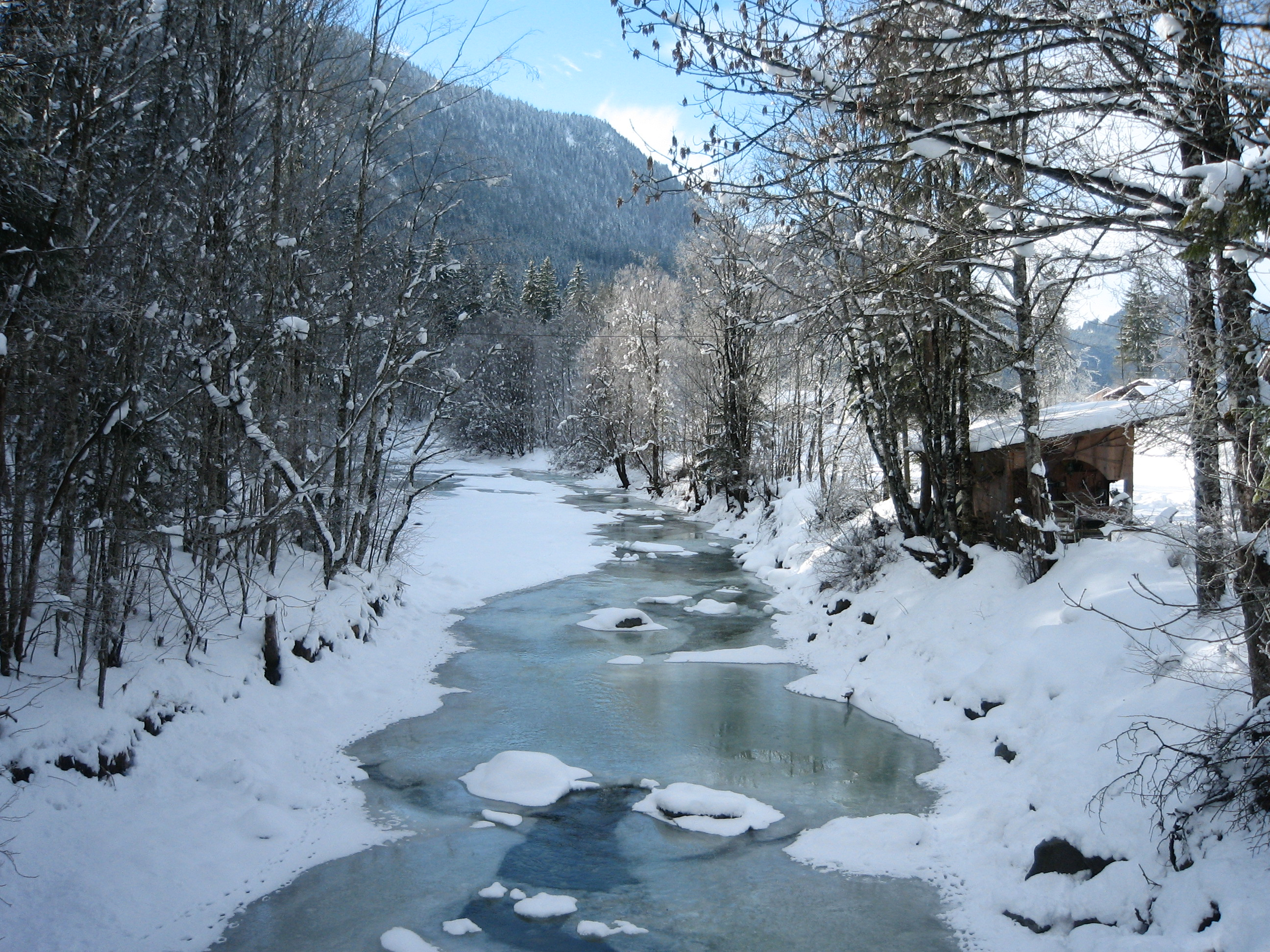 The Jachen stream during a cold winter day (Bavaria, Germany)